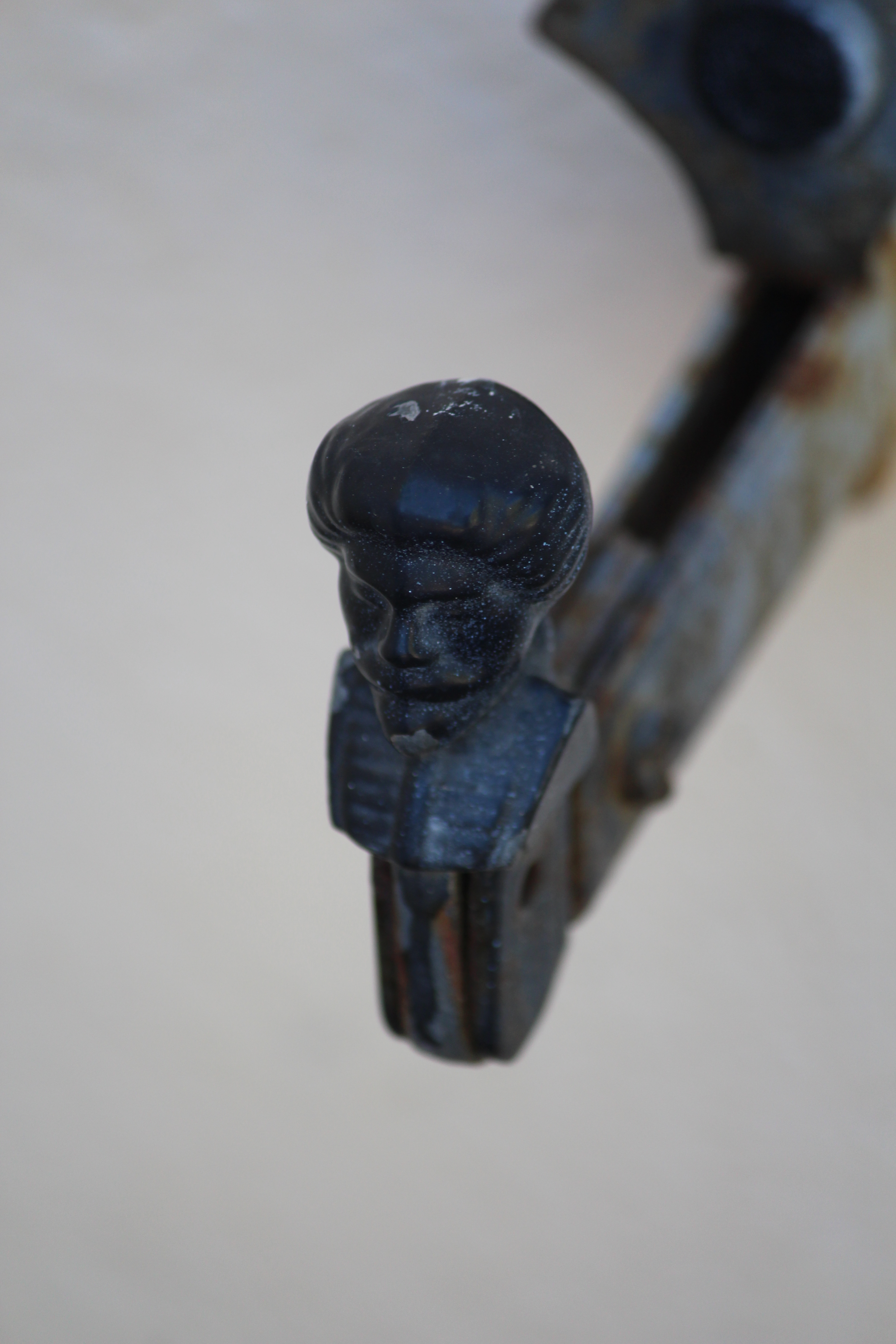 Nitzanim Palace, Israel. The site's ID in Wiki Loves Monuments photographic competition is 8-0351-001